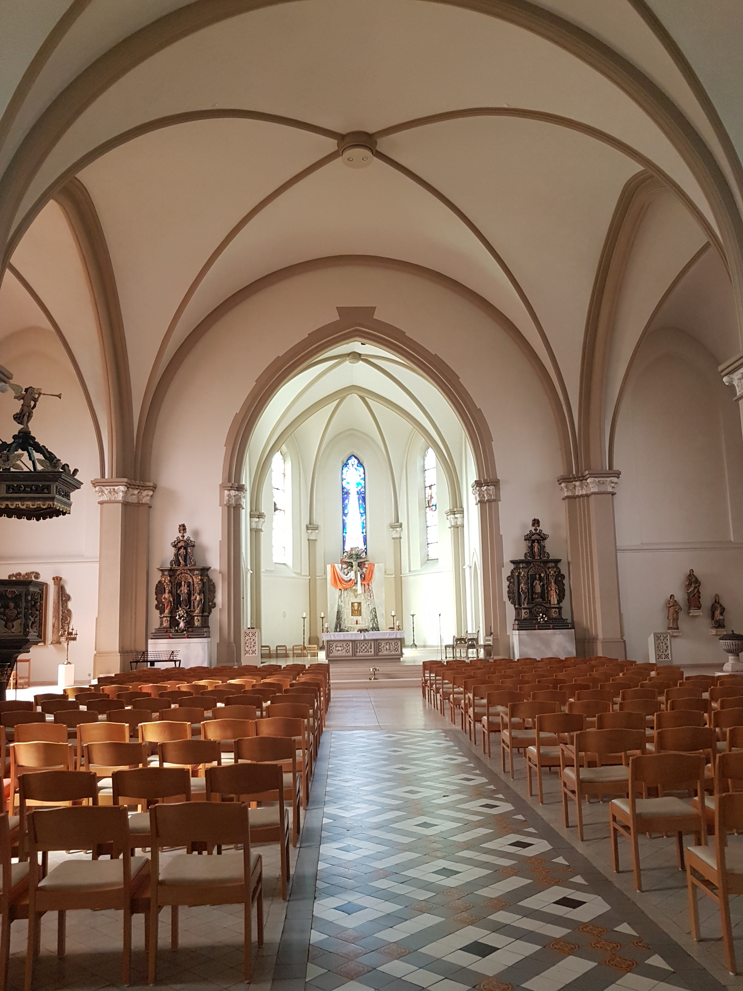 Church in Oberkorn (Differdange, Luxembourg) to St. Stephen